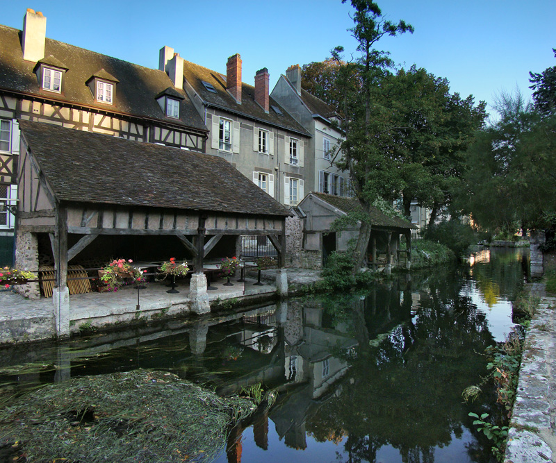 Chartres, Eure-et-Loir, Centre, France. On the banks of the Eure River.